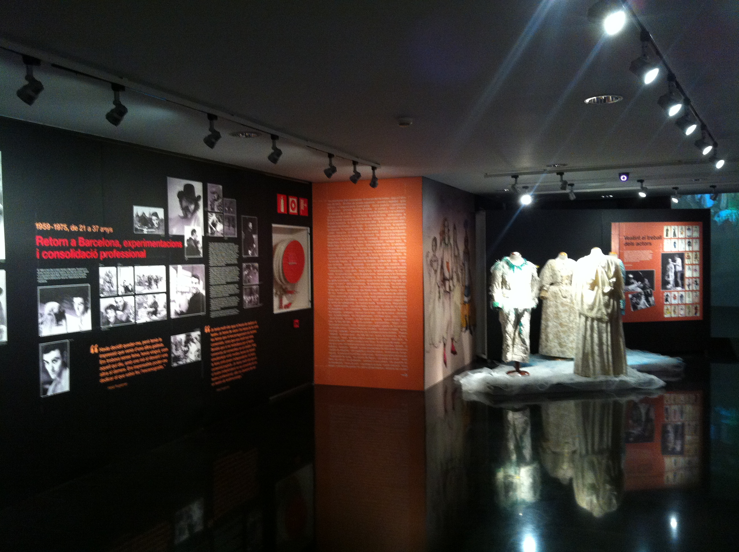 Fabià Puigserver exhibit at MAE in Barcelona